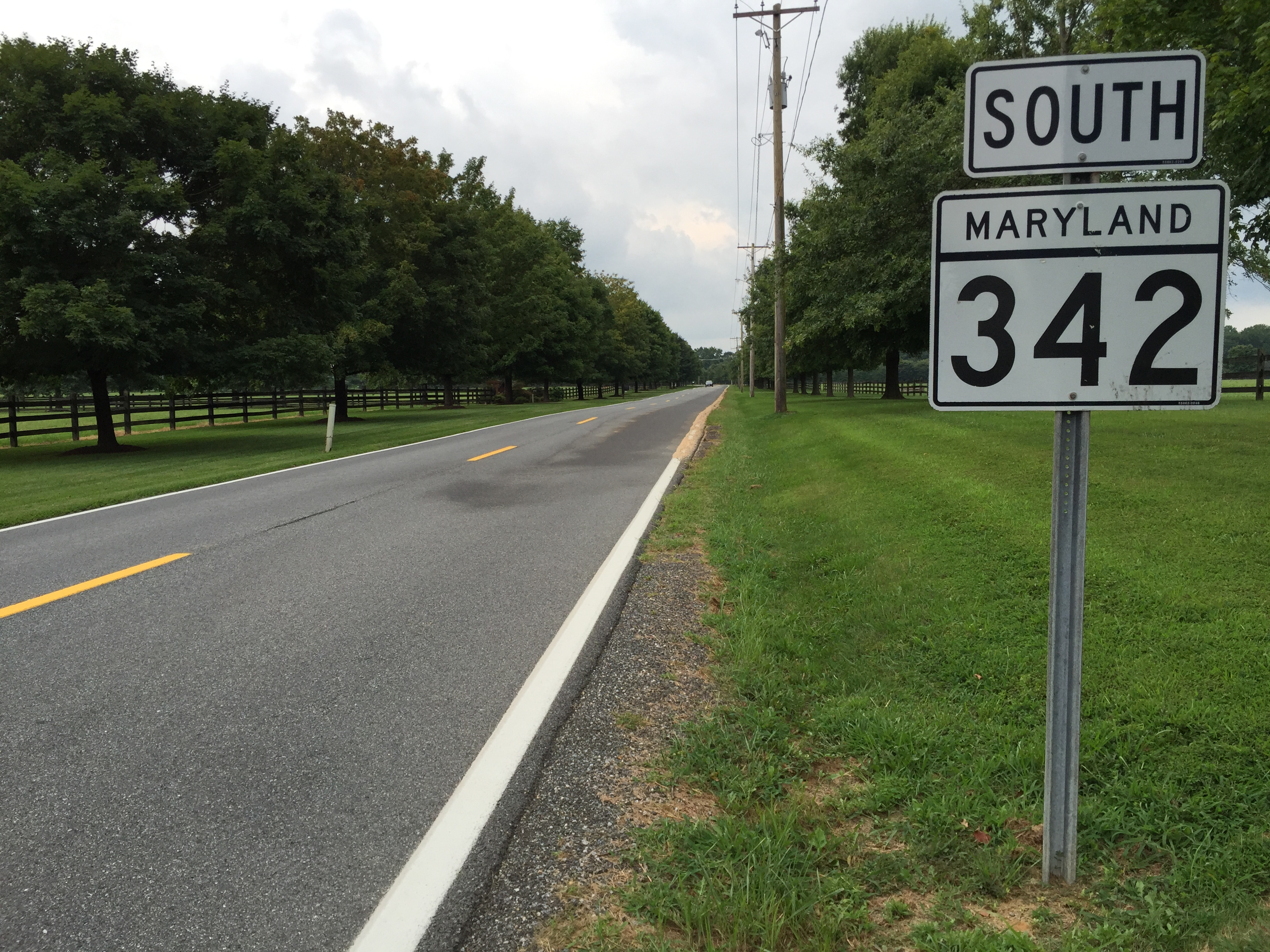 View south along Maryland State Route 342 (Saint Augustine Road) at between Wilmon Street and Yearling Row in Saint Augustine, Cecil County, Maryland